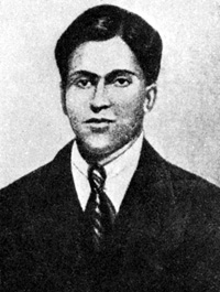 Badal Gupta, an Anti-British revolutionary from Bengal, India